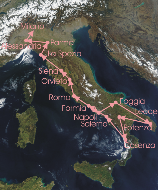 Map of Italy highlighting the stages of 1929 Giro d'Italia